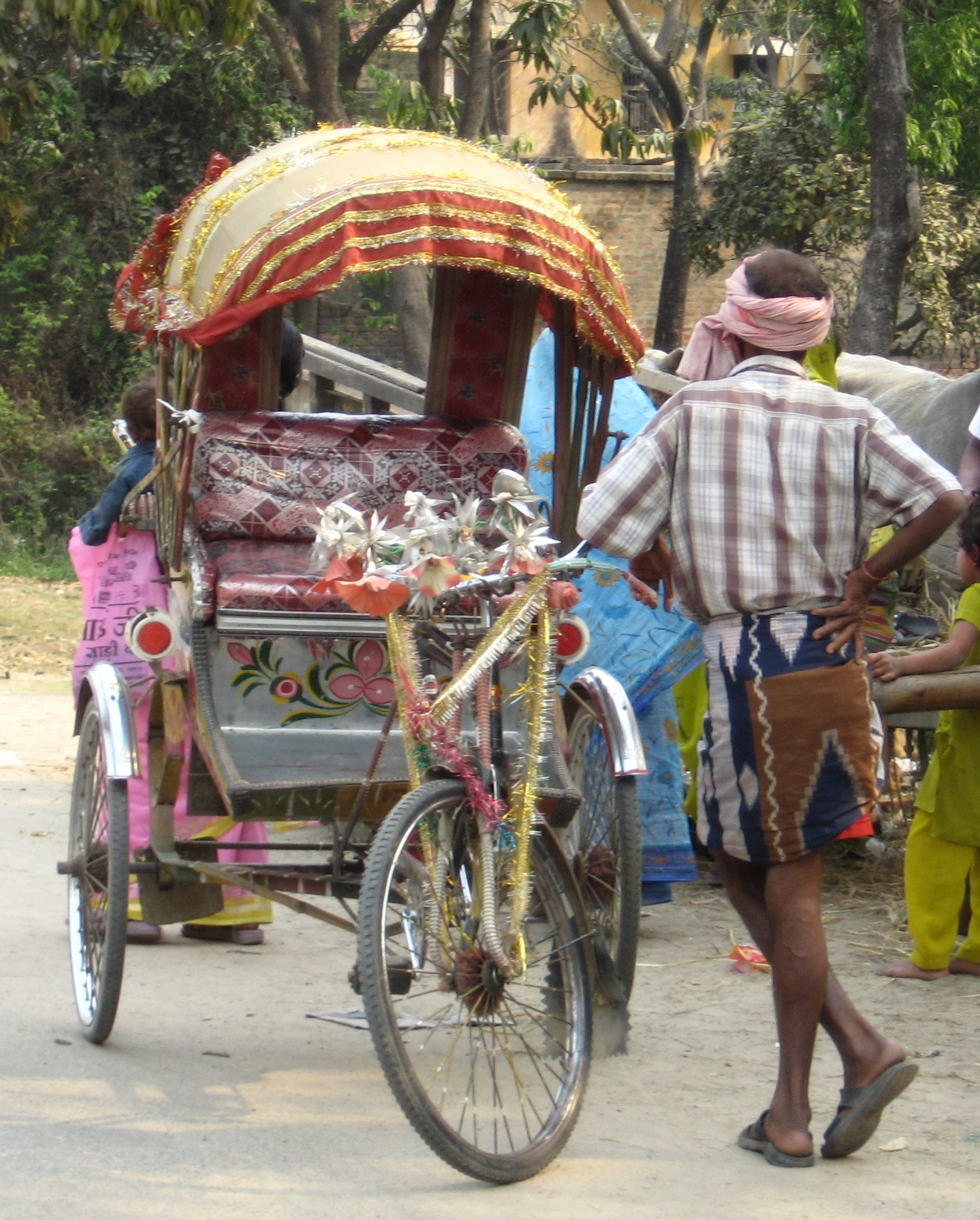 Janakpur, Nepal, Cycle rickshaws.